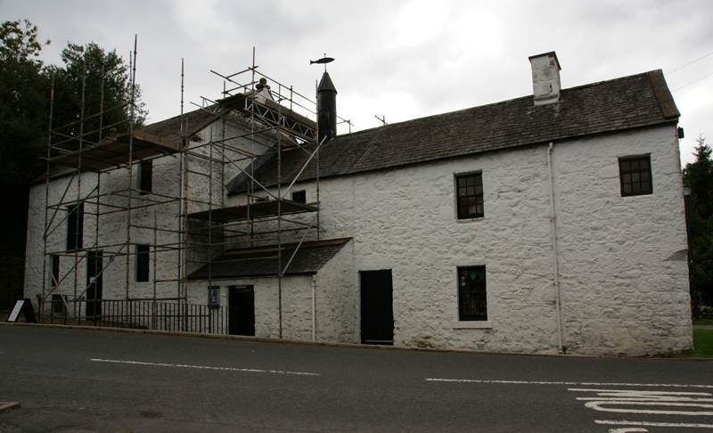 New Abbey Corn Mill, New Abbey, Dumfries and Galloway, Scotland. View from the east.